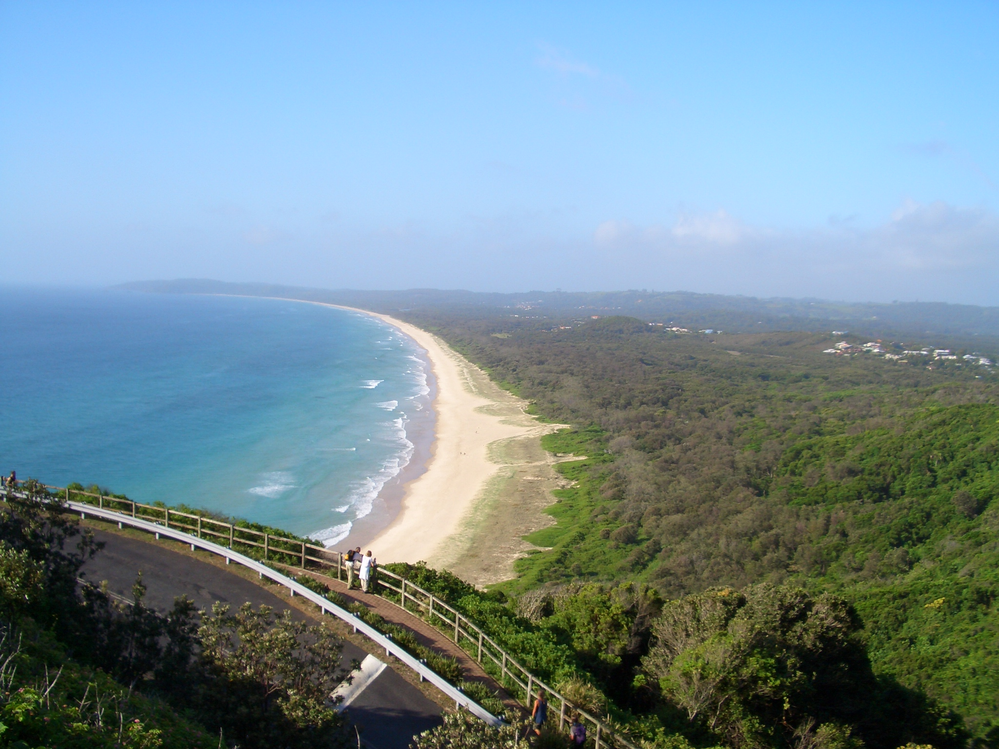 Tallow Beach, Byron Bay, as seen looking south from Cape Byron Lighthouse